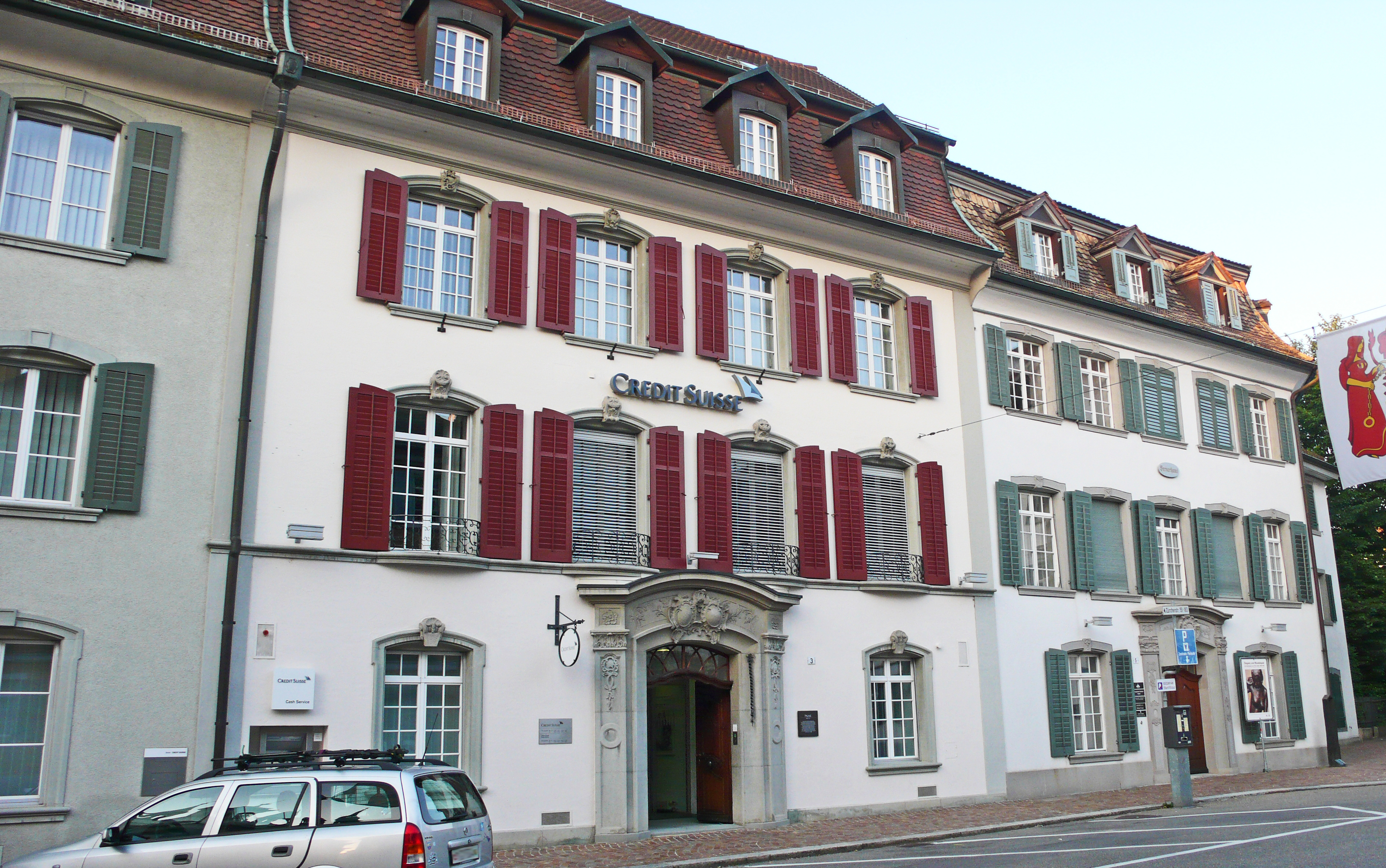 Baroque houses in Frauenfeld, Switzerland